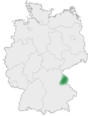 Location of Oberpfälzer Wald in Germany